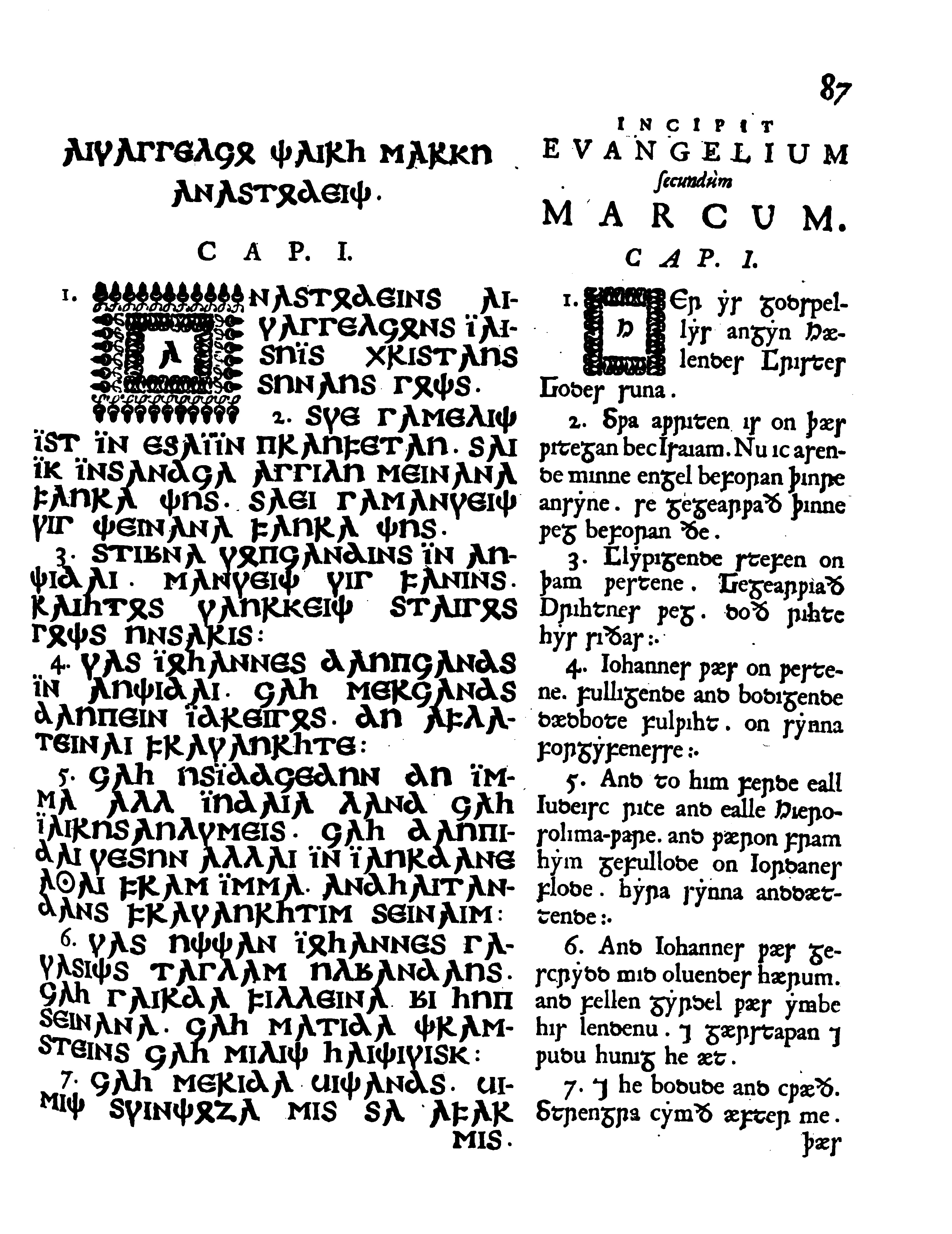 Franciscus Junius: Quatuor D. N. Iesu Christi Evangeliorum Versiones perantiquae duae, Gothica scil. et Anglo-Saxonica. Dordrecht: 1665, p. 87.